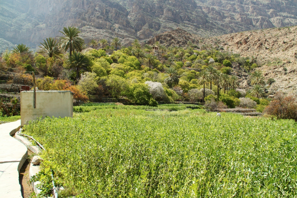 الزراعة في عمان